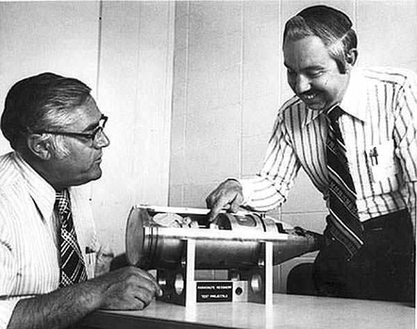 US Govt scientists with a full-scale cut-away model of the W48 155-millimeter nuclear artillery shell', a very small tactical nuclear weapon with an explosive yield equivalent to 72 tons of TNT (0.072 kiloton). Around a thousand of these shells were produced during the Cold War.